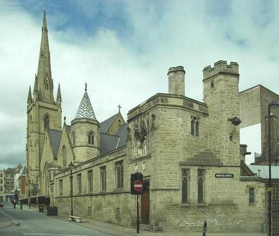 The Roman Catholic Cathedral Church of St Marie, Sheffield, South Yorkshire, England. Built 1847/50